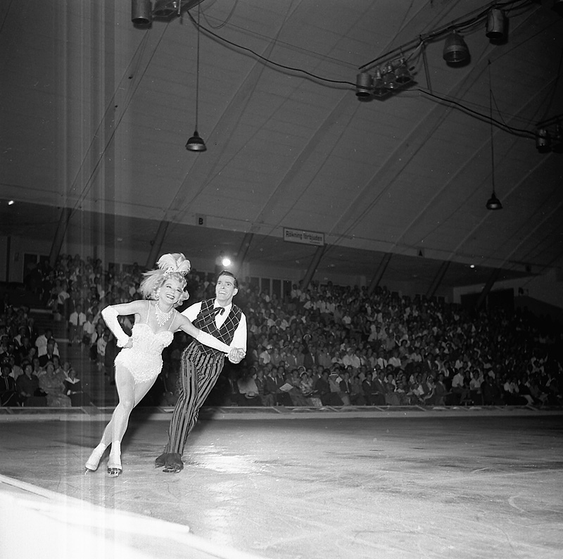 Description: Sonja Henie and Rudy Richards at Jordal Amfi 12/8 1955. Photographer: Billedbladet NÅ Archival reference: PA797_883. Text: "Sonja once again has managed to knock us senseless with her gigantic Hollywood Ice Show. Jordal Amfi is packed every night by a delighted audience. Our photographer has been present one night in front of and behind the scenes in the ice queen’s palace at Jordal. However, his camera could only reproduce a weak reflection of the show, where the sparkling play of colours and the changing lights play an important part.” Report Finn Norstrøm - Ragge Strand.